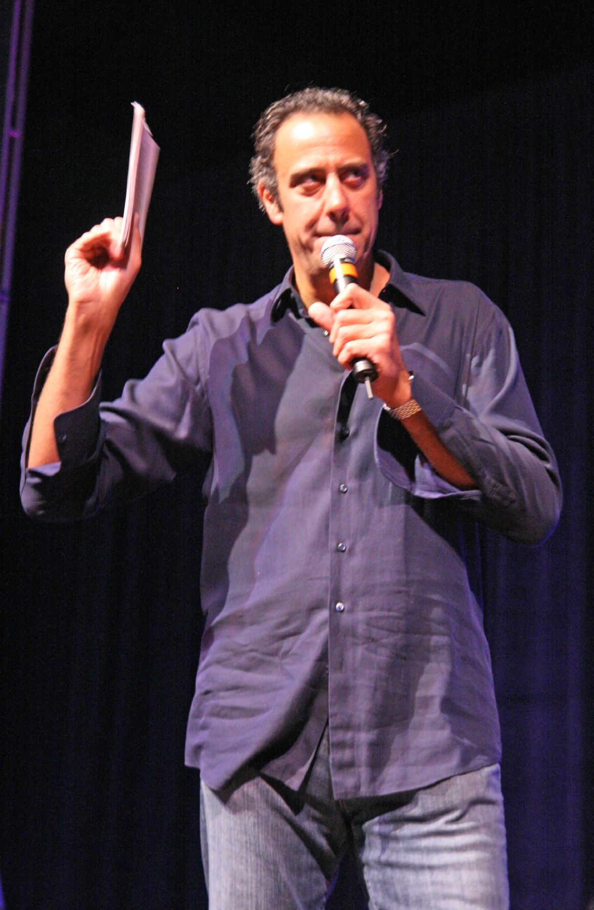 Brad Garrett at the "make a wish wine auction" Photo cropped by Magnus Manske 15:43, 30 September 2007 (UTC)